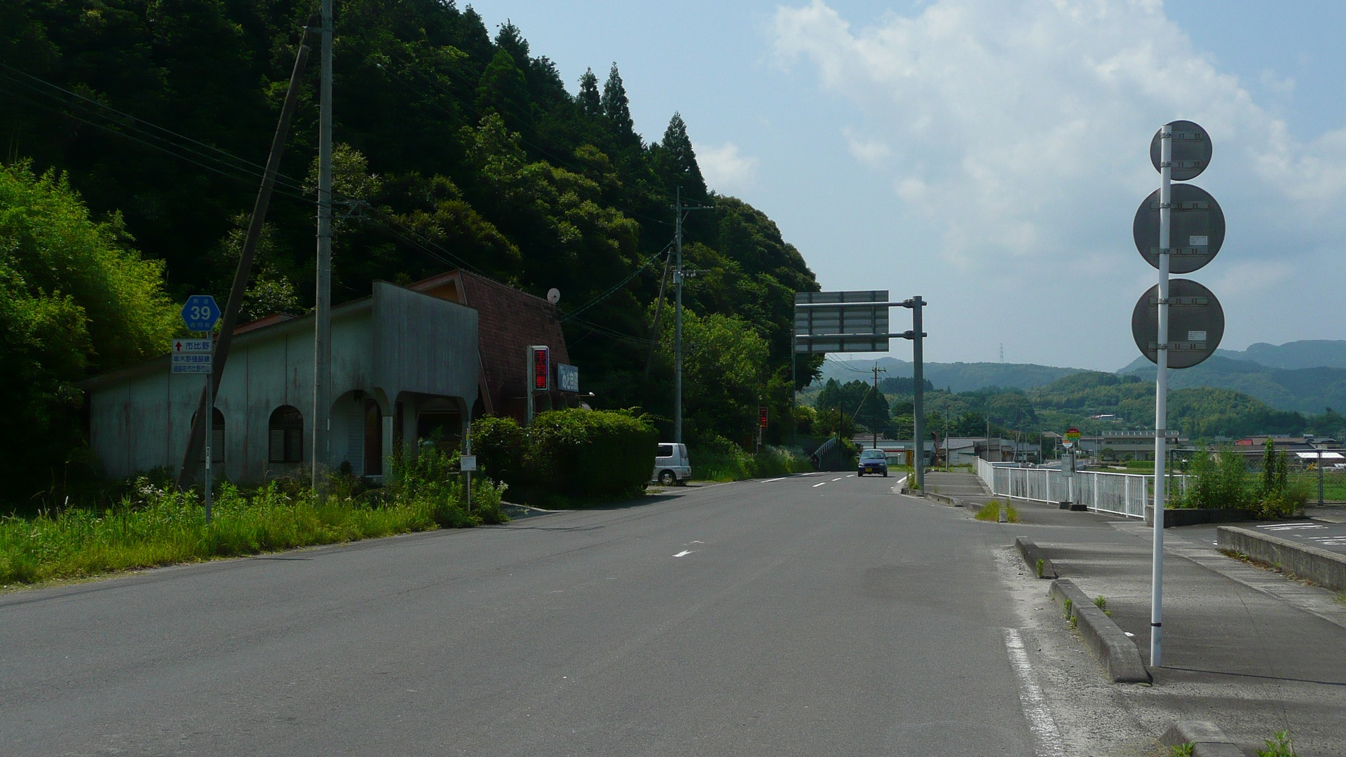 Kagoshima Prefectural Road 39 (Ichihino, Hiwaki, Satsumasendai City, Kagoshima, Japan)